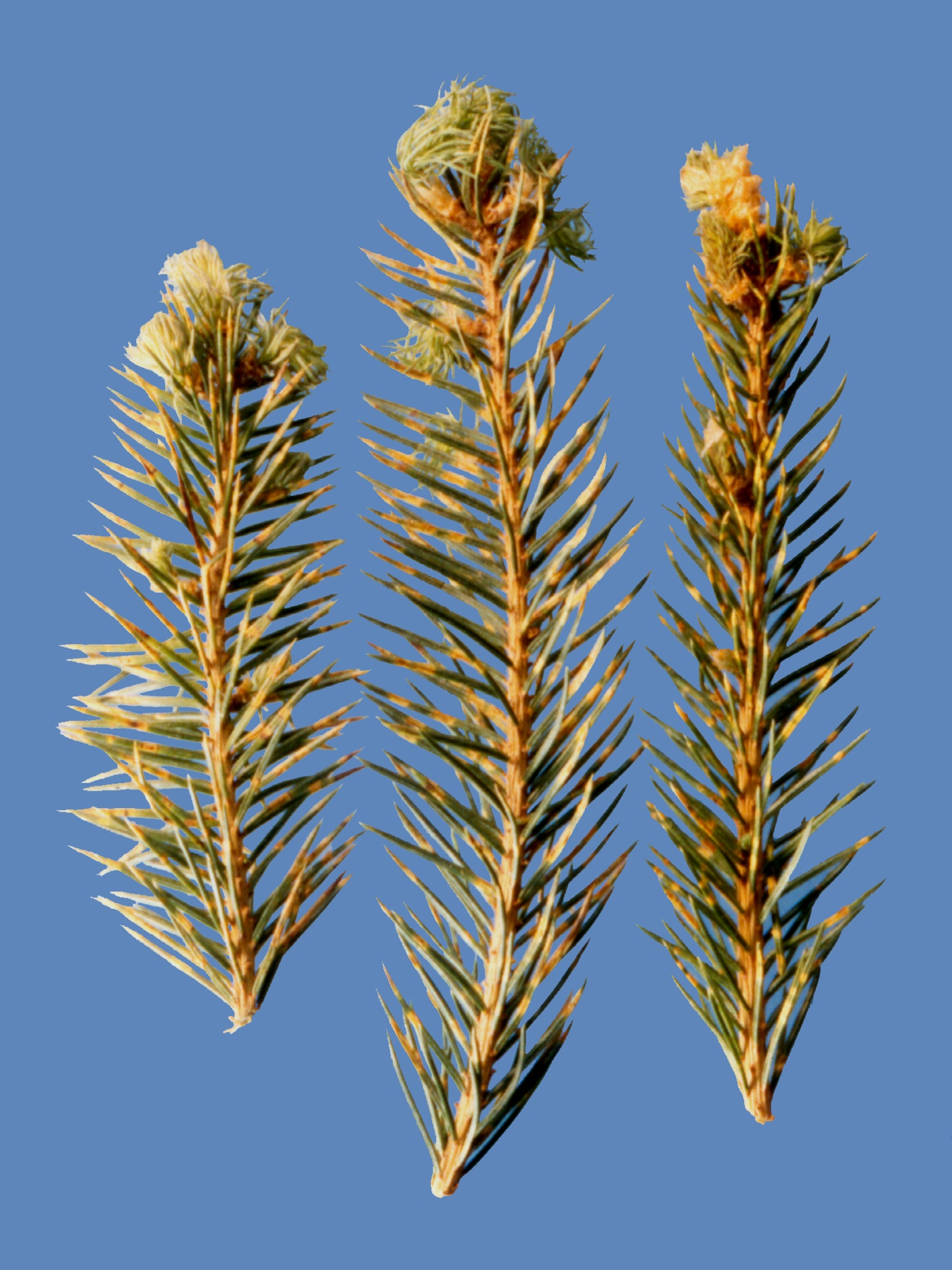 Spruce twig infected with the Chrysomyxa weirii fungus